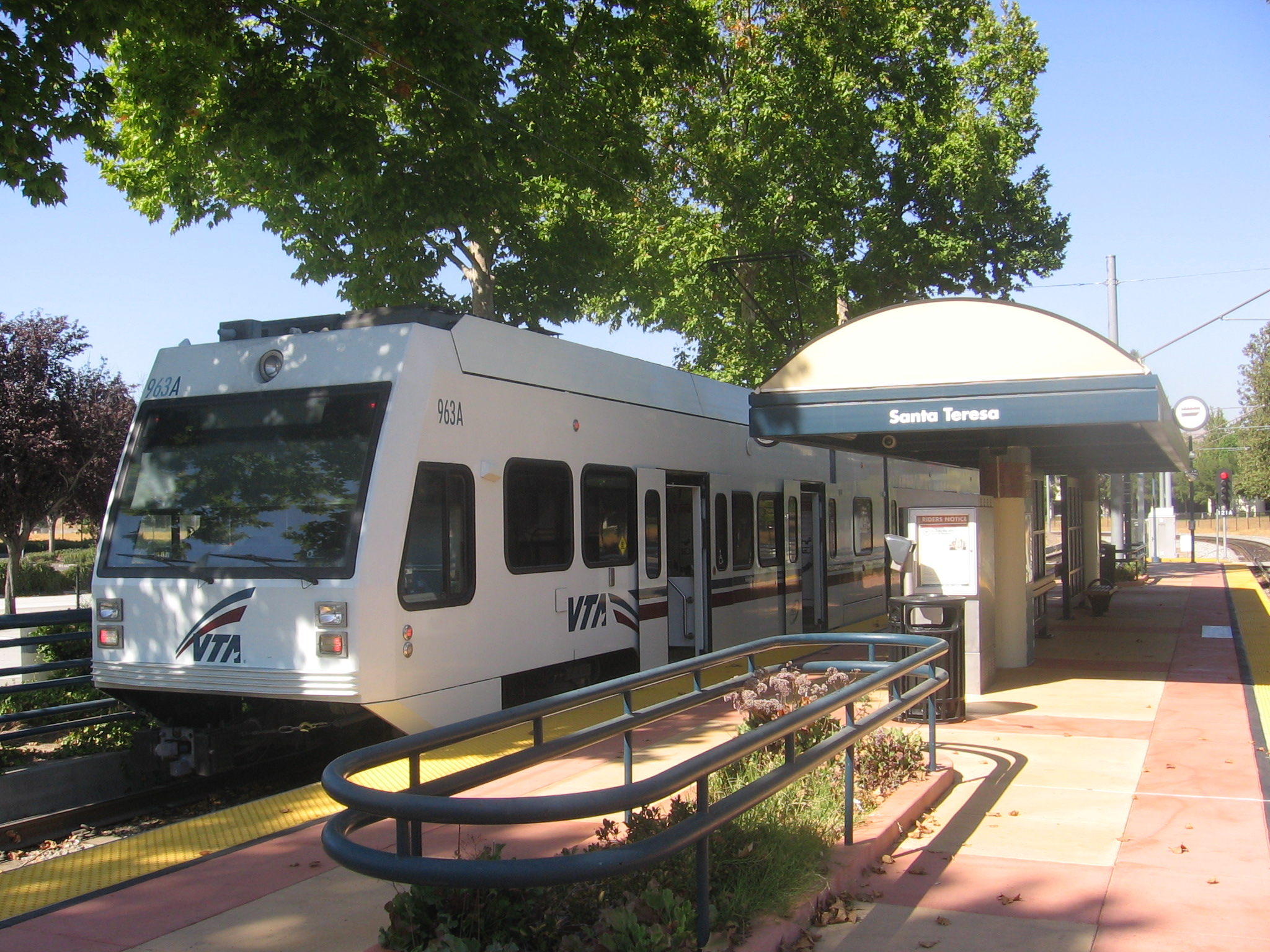 The Santa Teresa (VTA) light rail and bus station in southern San José, California, USA.